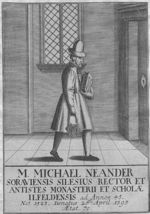 Portrait of Michael Neander